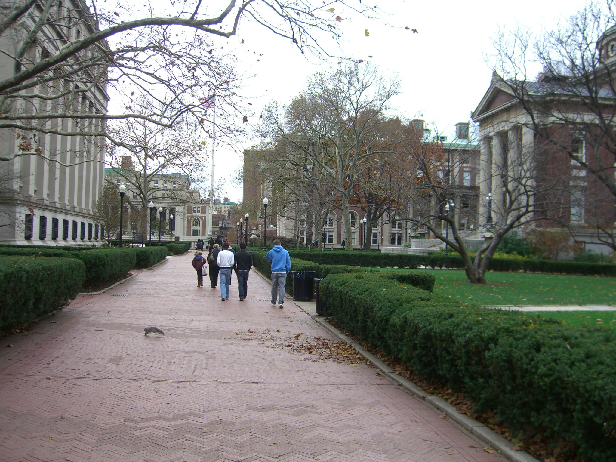 The campus of Columbia University, facing south. At the far right is Earl Hall.